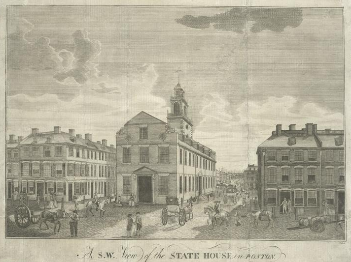 Image Title: A S.W. view of the State House, in Boston. Creator: Hill, Samuel, 1766?-1804 -- Engraver. Additional Name(s): Hill, Samuel, 1766?-1804 -- Artist. Medium: Engravings. Specific Material Type: Prints. Item Physical Description: 1 print ; 20.3 x 29.6 cm. Notes: From The Massachusetts Magazine, July 1793. Note 2.) Print issued July 1793. Source: I.N. Phelps Stokes Collection of American Historical Prints.